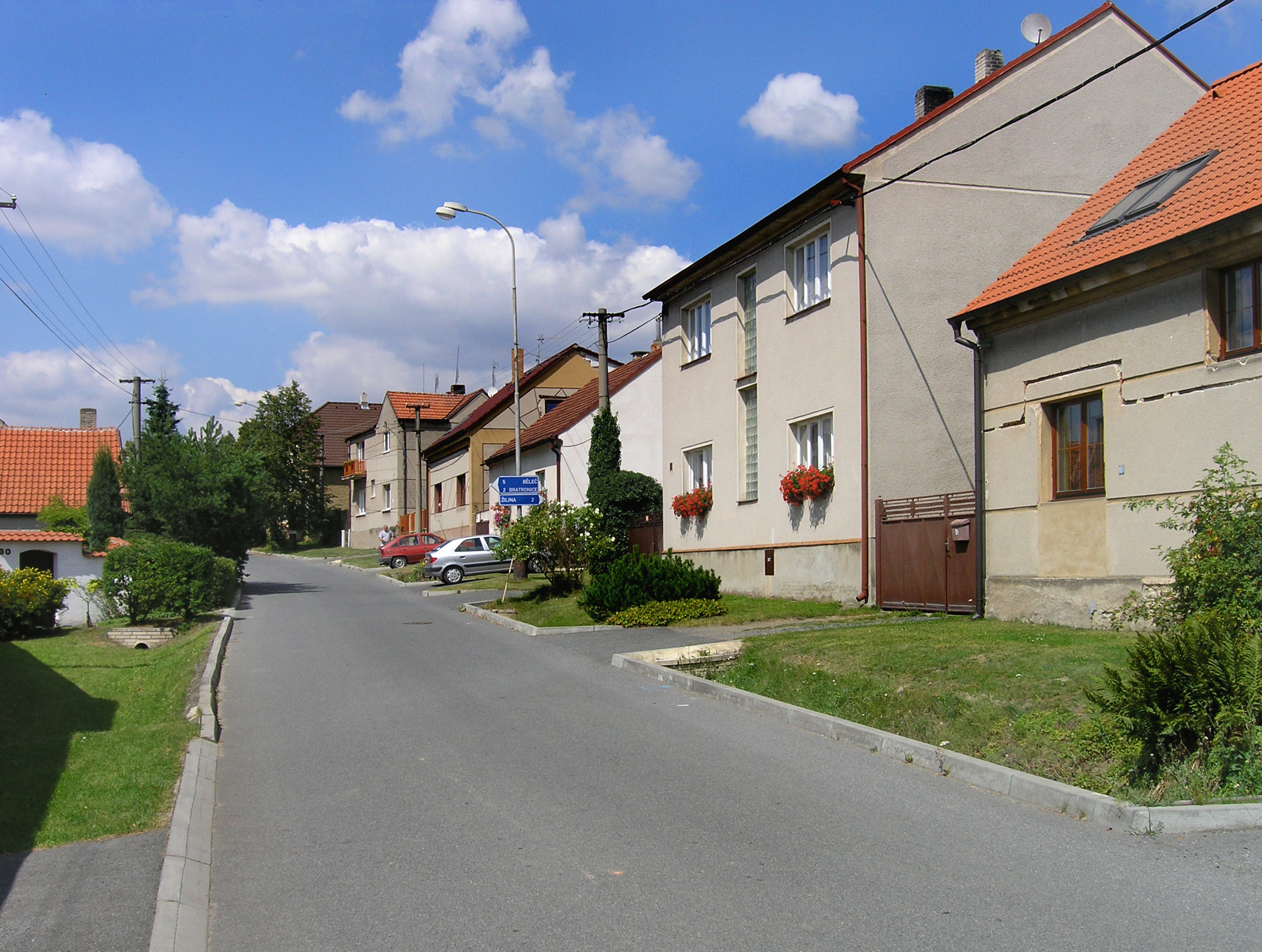 Požárníků street in Lhota by Kladno, Czech Republic